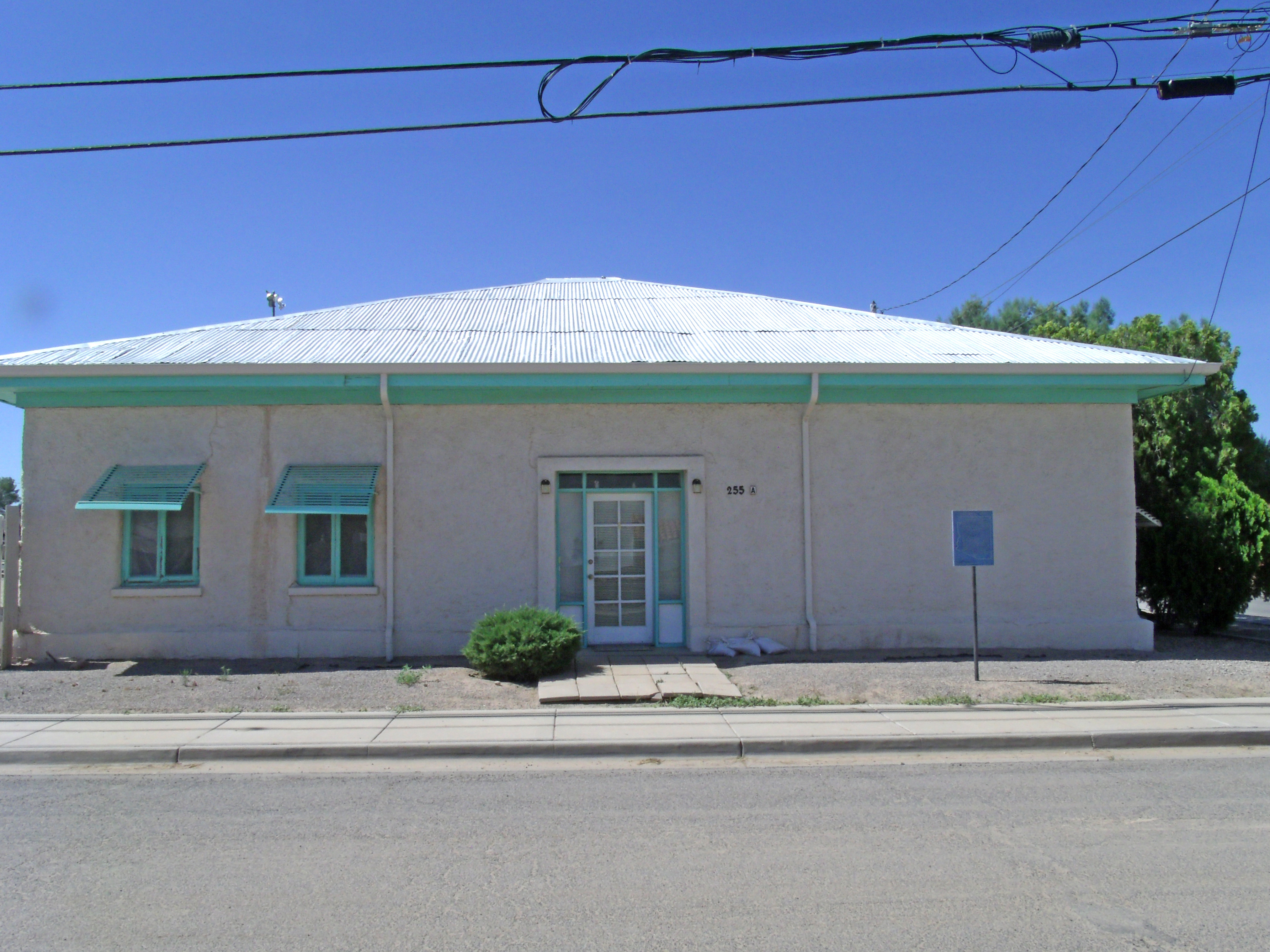 The Walker-Oury House was built in 1877 and is located in 255 Ruggles St. in Florence, Arizona. John D. Walker was an agent and physician to the Pima Indians at Sacaton. This building was used as courtroom and county offices during his terms as justice of the peace, county surveyor and probate judge. Walker was an early investor in the Vekol Mine and wrote the first Pima grammar text. Here Pauline Cushman, a Union Army American Civil War spy and actress, wed Jere Freyer. The building was purchased (1886) by Granville Oury, delegate to the Confederate Congress, Arizona territorial legislator and attorney general, district court judge, and delegate to the U.S. Congress. Listed as Historic by the Historic District Advisory Commission.